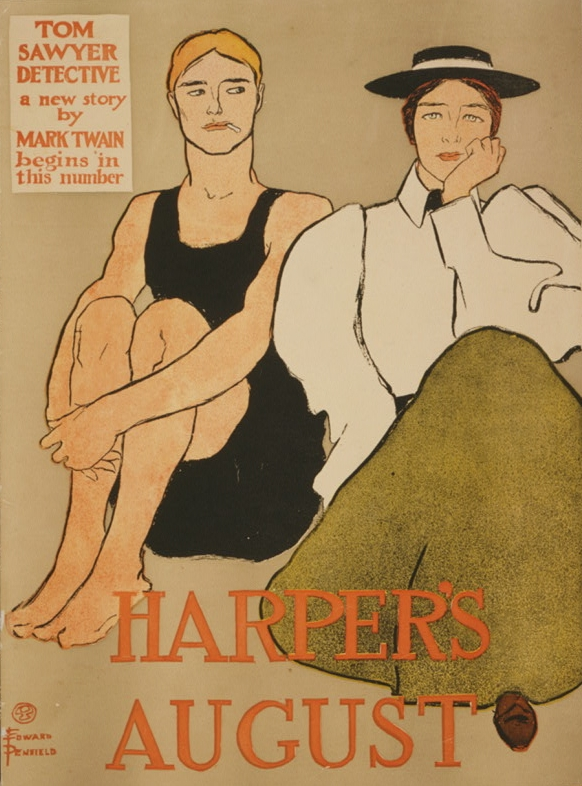 "Harper's August. Tom Sawyer Detective. A new story by Mark Twain begins in this number."